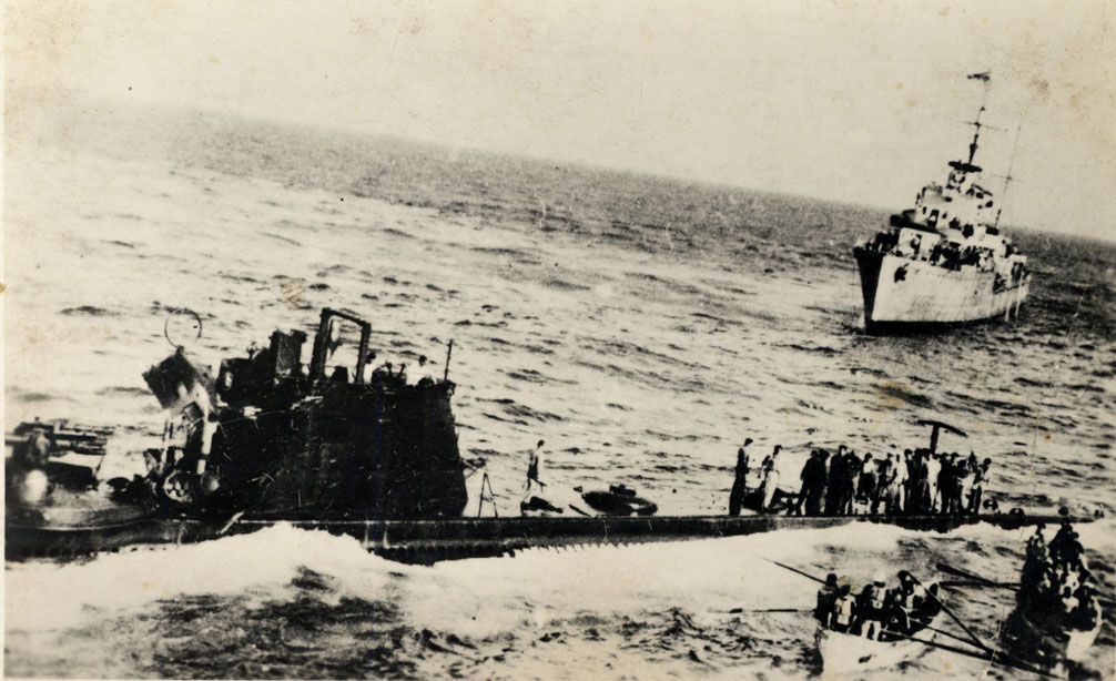 Able Seaman Arthur Thomas Wood was born 21 April 1921 at Berry in New South Wales, and joined the Royal Australian Navy in 1938 at the age of 17. After training at HMAS CEREBUS he joined HMAS SYDNEY in early 1939. When World War II was declared, SYDNEY was ordered to serve in the Mediterranean for escort duty. Wood was aboard SYDNEY when it sank the Italian cruisers ESPERO and BARTOLOMEO COLLEONI in July 1940. These photographs and postcards depict some of the sailors, equipment and activities of HMAS SYDNEY in the months prior to the sinking of the vessel. They provide an interesting commentary of the operations and work carried out aboard HMAS SYDNEY prior to its fateful end, such as the sinking of Italian ships ESPERO and BARTOLOMEO COLLEONI in the Mediterranean. The Australian National Maritime Museum undertakes research and accepts public comments that enhance the information we hold about images in our collection. If you can identify a person, vessel or landmark, write the details in the Comments box below. 30 September 1940. HMAS Stuart and Alexandria base RAF Sunderland aircraft of 230 Squadron sank the Gondar in 31, 33N, 28, 33E. Stuart and antisubmarine trawler Sindonis (440grt)) rescued forty seven survivors. Destroyer HMS Diamond arrived as Gondar was sinking. Thank you for helping caption this important historical image. Object number ANMS0845[036].